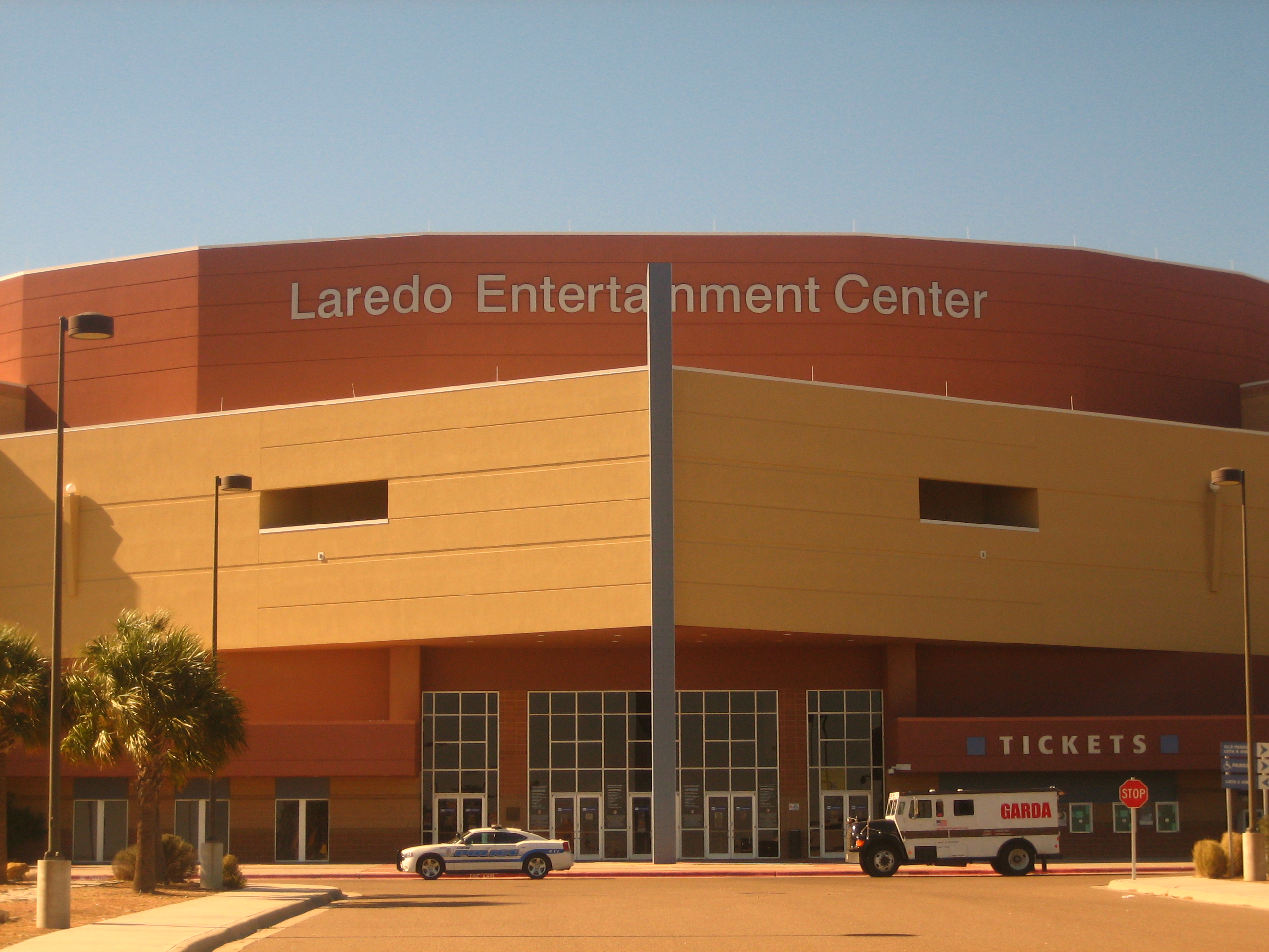 I took photo on Dec. 12, 2008.Billy Hathorn (talk) 03:42, 16 December 2008 (UTC)